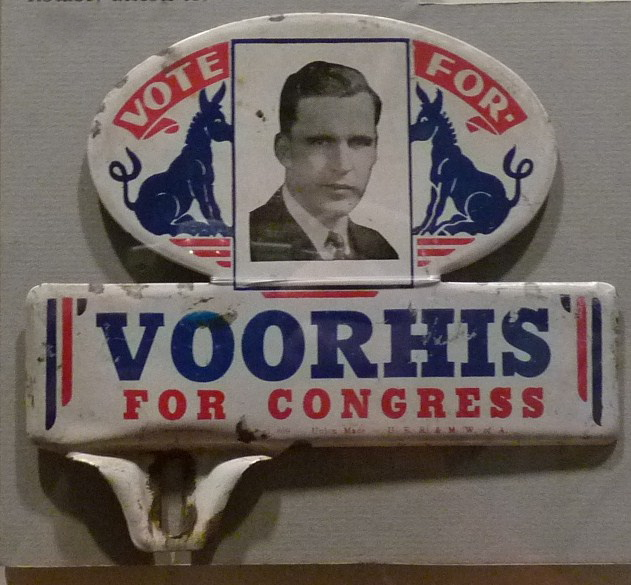 Voorhis campaign license plate attachment, on display at Nixon Presidential Library and Museum, Yorba Linda CA. Gift to the museum by Mr. Chris Crain (photo retouched to delete that text).